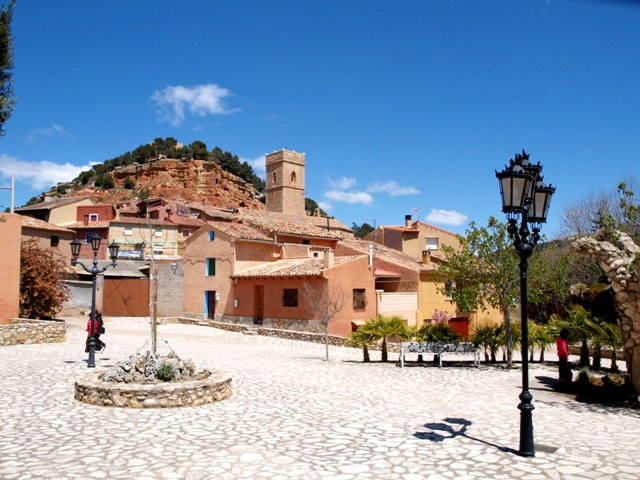 Anento Square, Province of Zaragoza, Spain